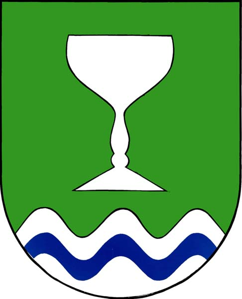 Municipal coat of arms of Karolinka town, Vsetín District, Czech Republic.